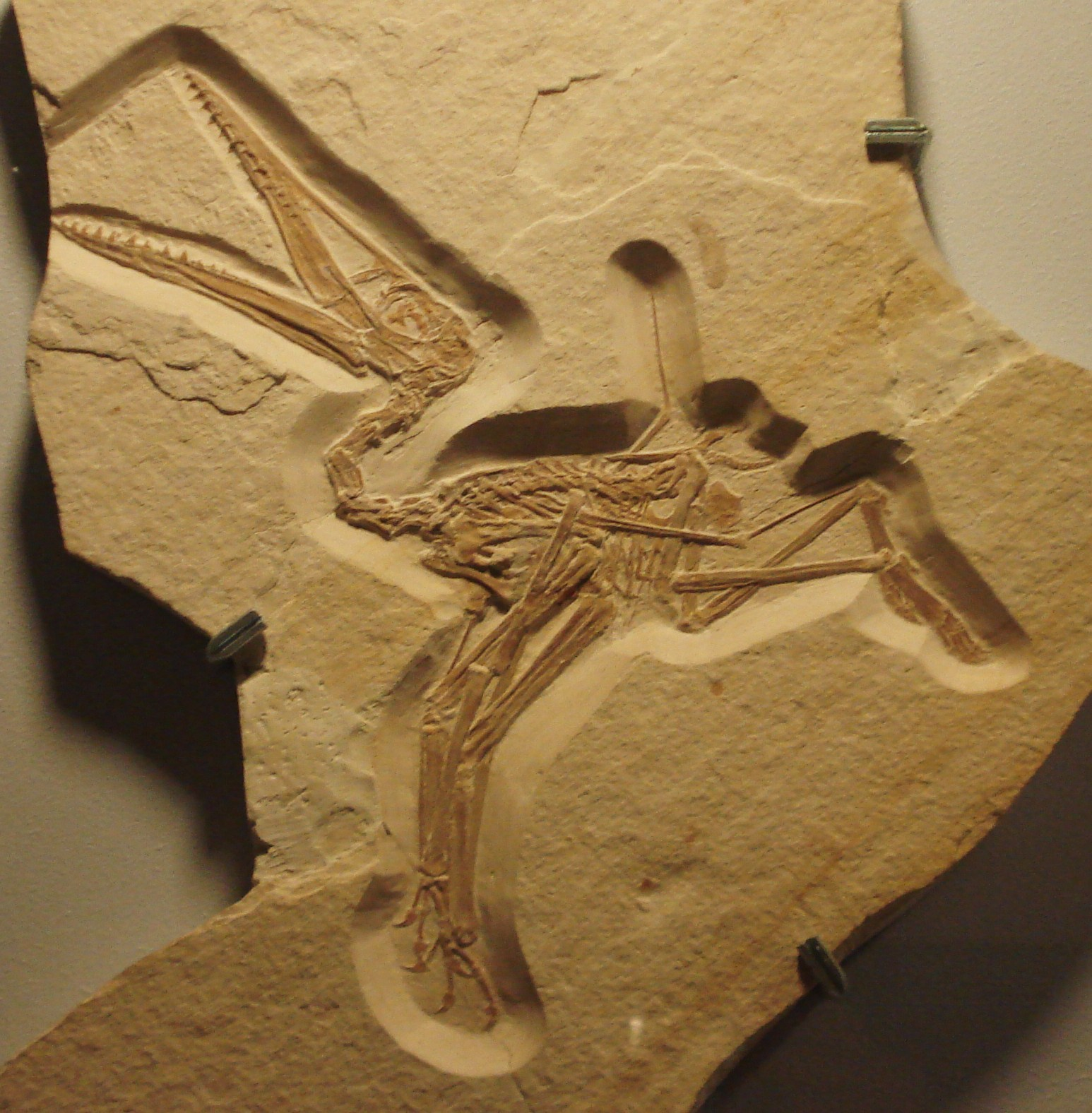 fossil of pterodactylus